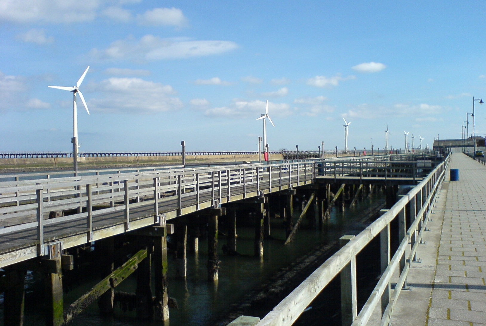 The Quayside and wind turbines at Blyth, Northumberland.